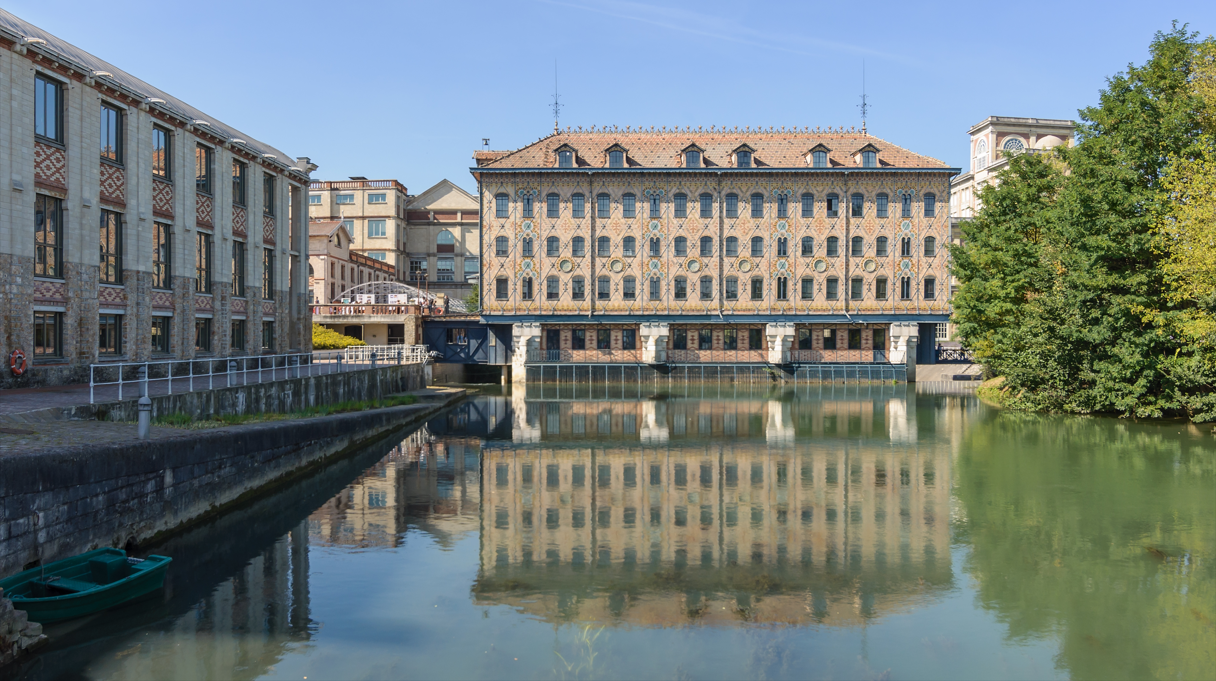 Former Menier chocolate factory in Noisiel, Seine-et-Marne, France: the watermill designed by Jules Saulnier (1872) on the Marne river.